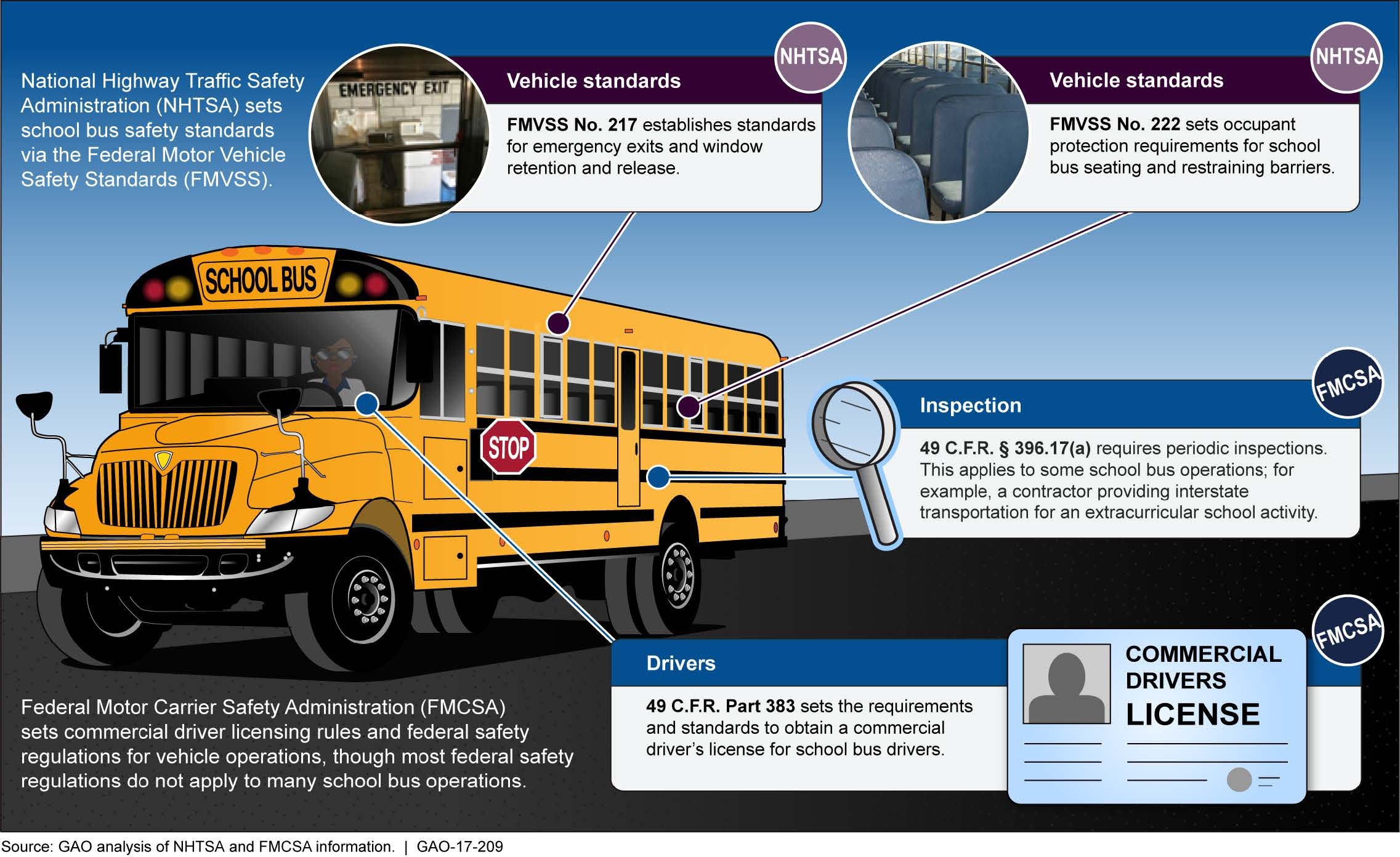 This image is excerpted from a U.S. GAO report: SCHOOL BUS SAFETY: Crash Data Trends and Federal and State Requirements Note: FMVSS No. 220, which specifies school bus rollover protection requirements, and FMVSS No. 221, which specifies requirements for the strength of the body panel joints in the bodies of school buses, are two other standards that are specific to school buses. These vehicle standards are part of the 48 federal vehicle standards that apply to new school buses.